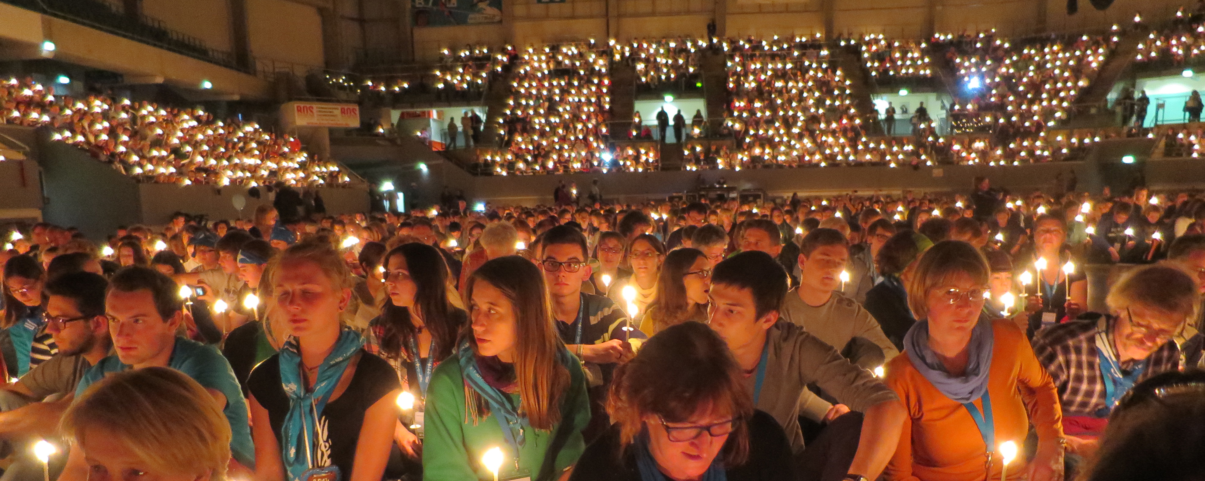 "Nacht der Lichter" beim 99. Katholikentag in Regensburg